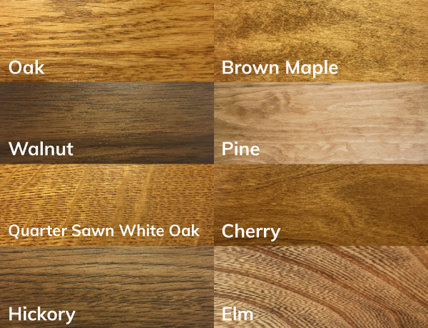 Composite image of eight popular wood types used in American furniture